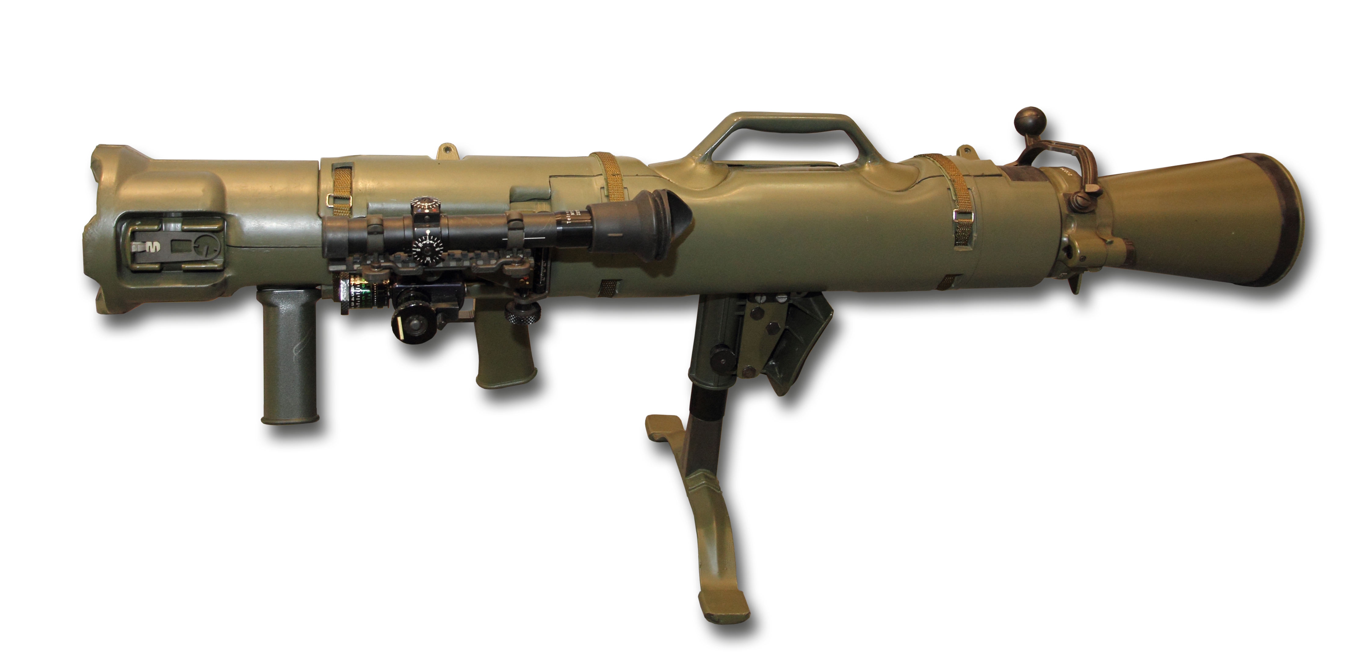 Carl Gustav M3 anti-tank rocket at Bofors exhibition stall at Comprehensive security exhibition 2015 in Tampere.